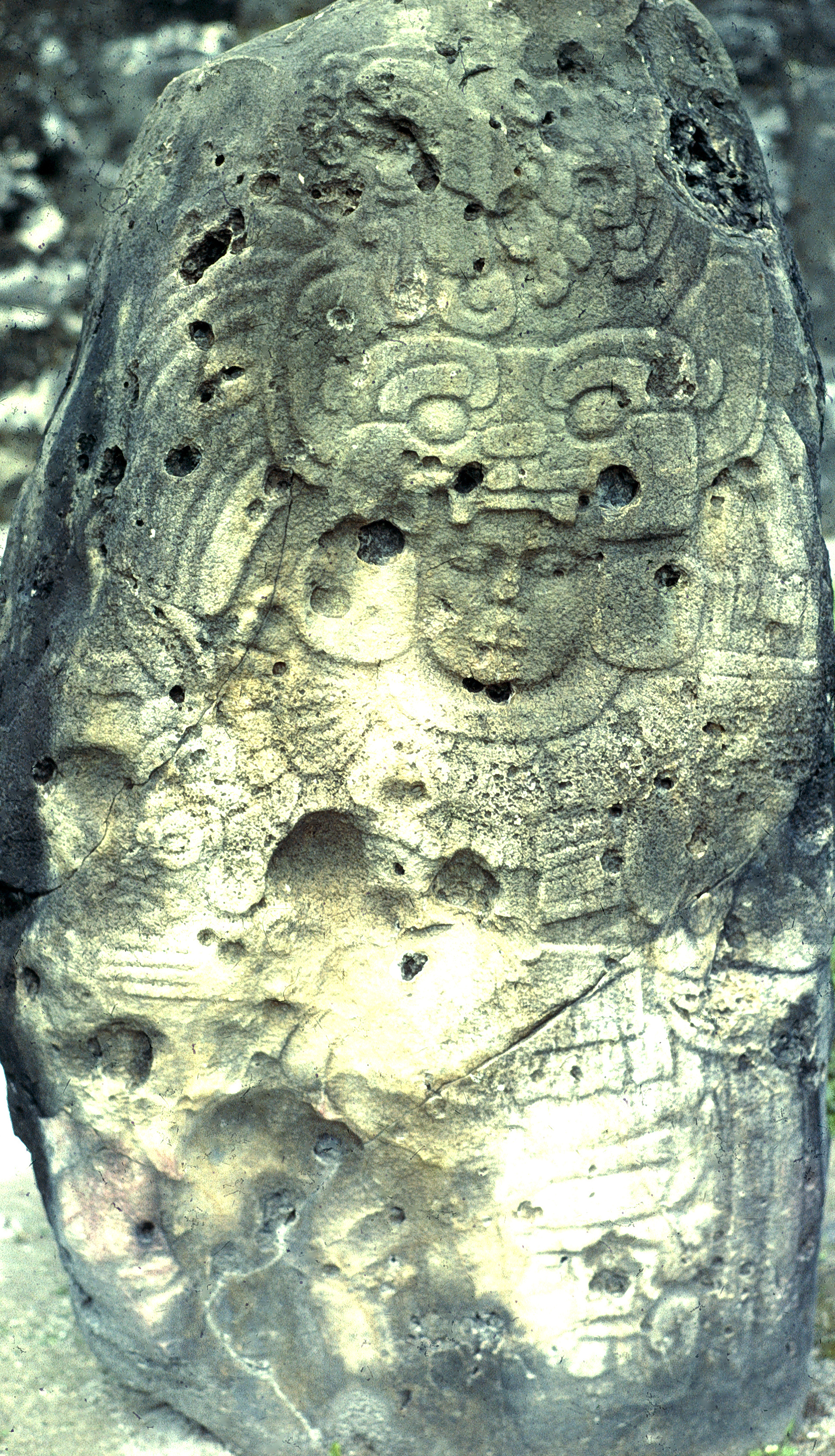 Tikal, Guatemala: Stela 4